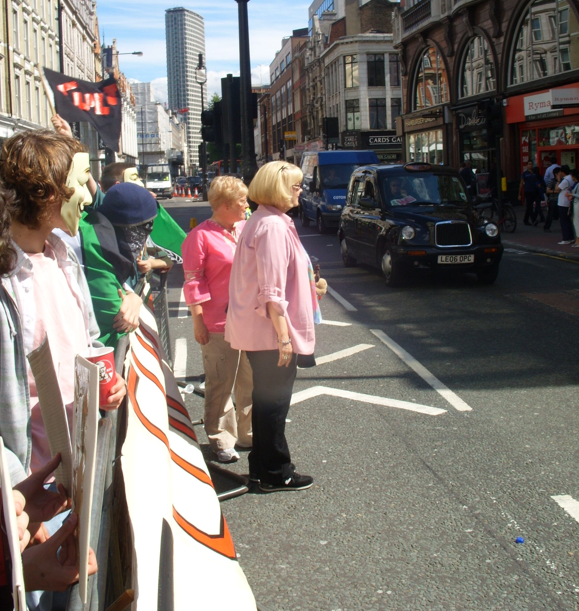 Tory Christman at the London "Spy vs Sci" protest by Project Chanology.